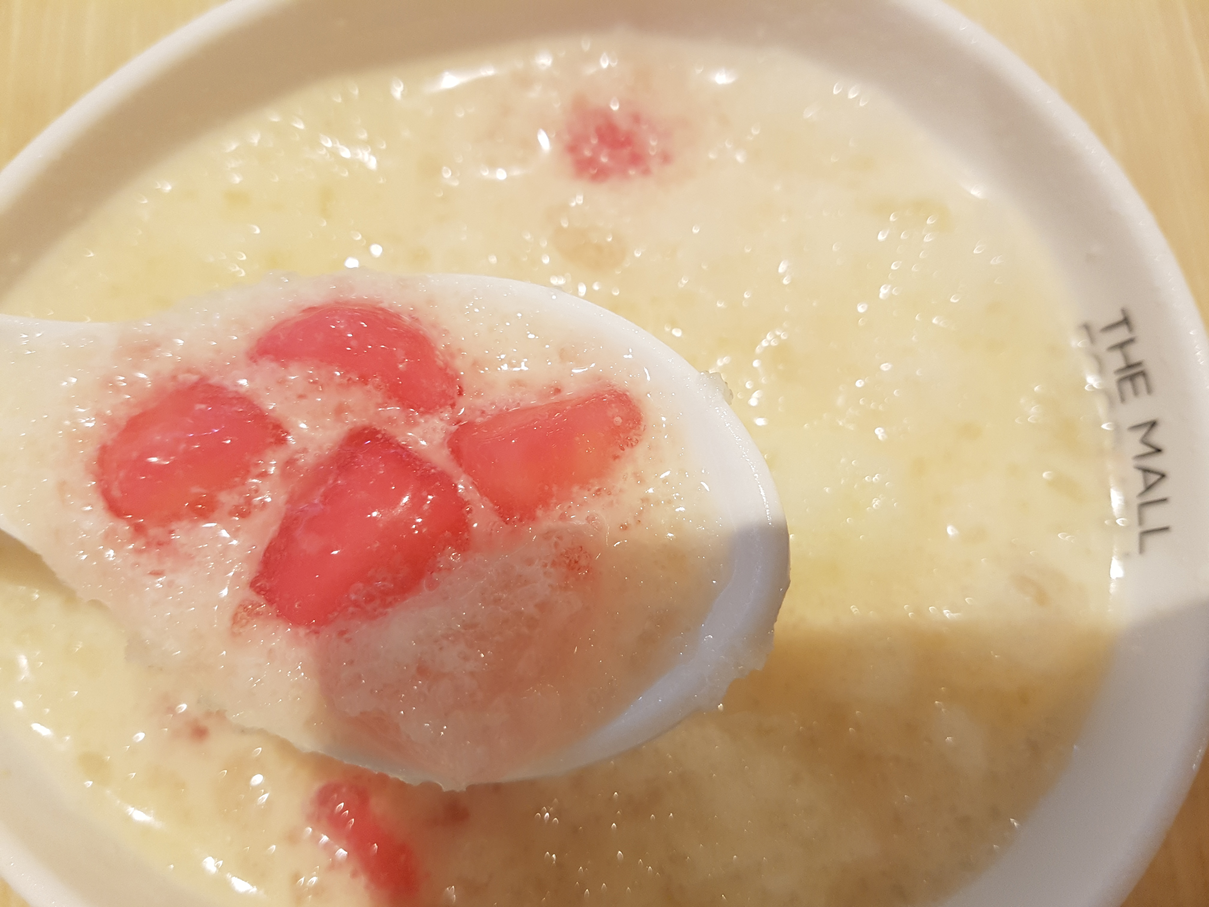 Crispy rubies (ทับทิมกรอบ) as sold in Bangkok, Thailand.